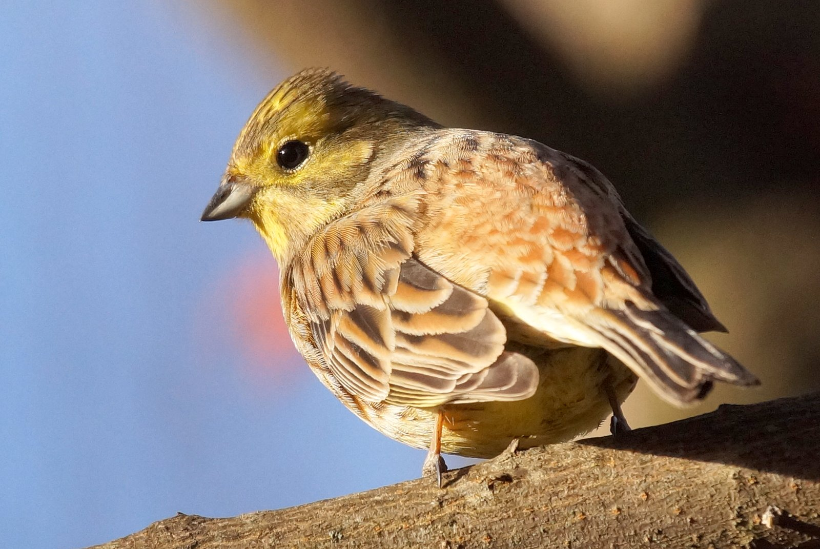 Yellowhammer (Emberiza citrinella)